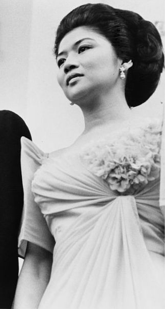 Imelda Marcos Cropped from File:Marcos visit Johnson 1966.jpg.